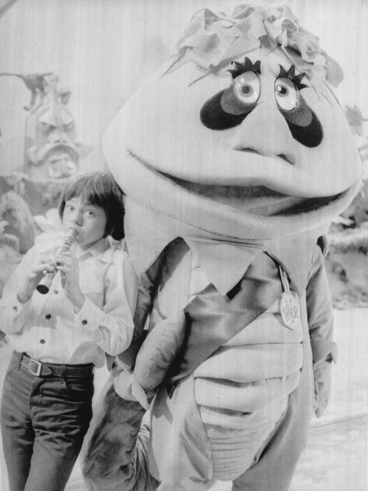 Publicity photo of English actor, Jack Wild promoting the NBC children's series, H.R. Pufnstuf, 1969.